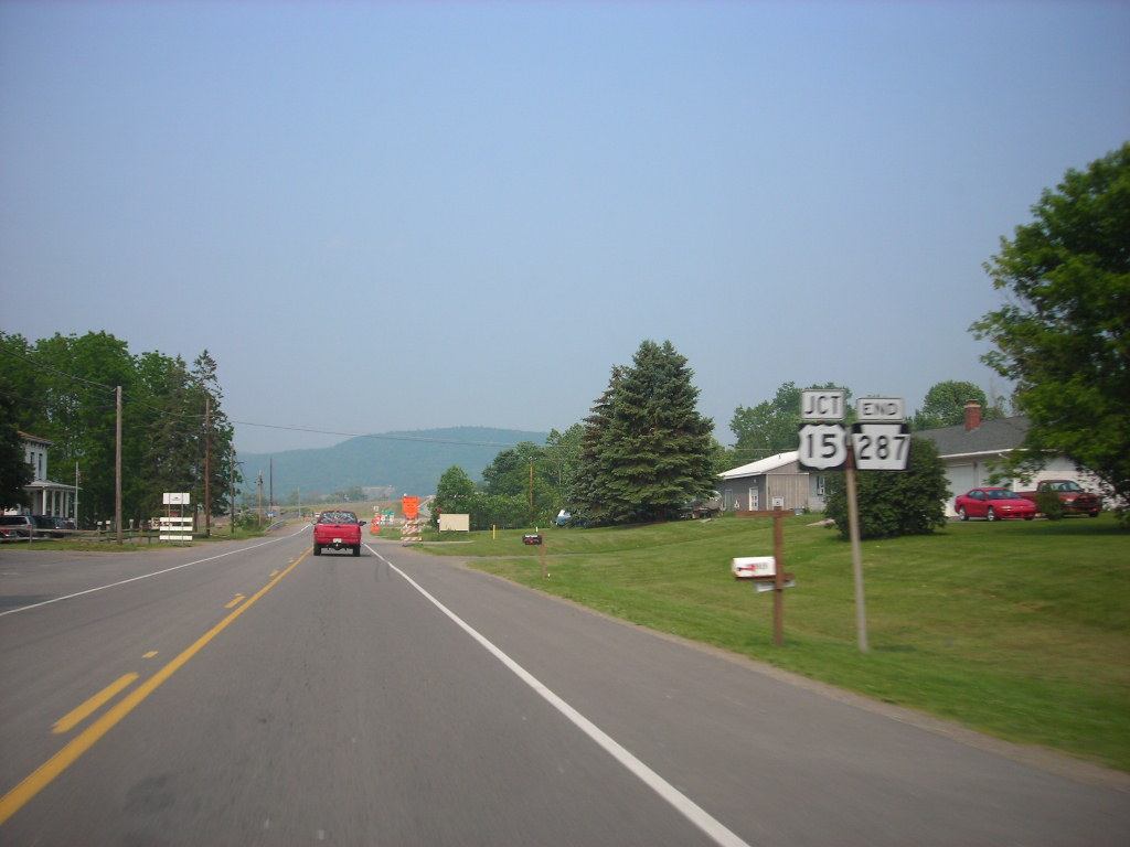 Pennsylvania Route 287 at its original northern terminus in 2006. Route 287 was extended in 2008 farther north.